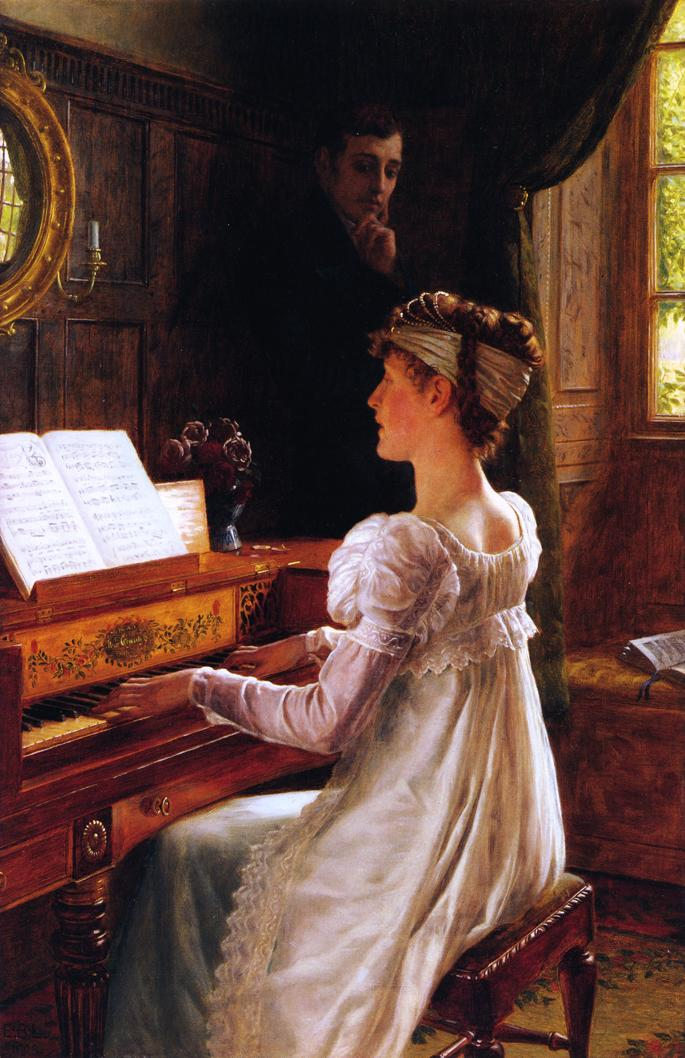 Courtship. Painting - oil on canvas